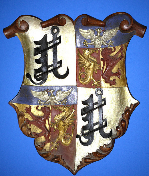 Wappen von der Decken Ringelheim Carved Wood and painted